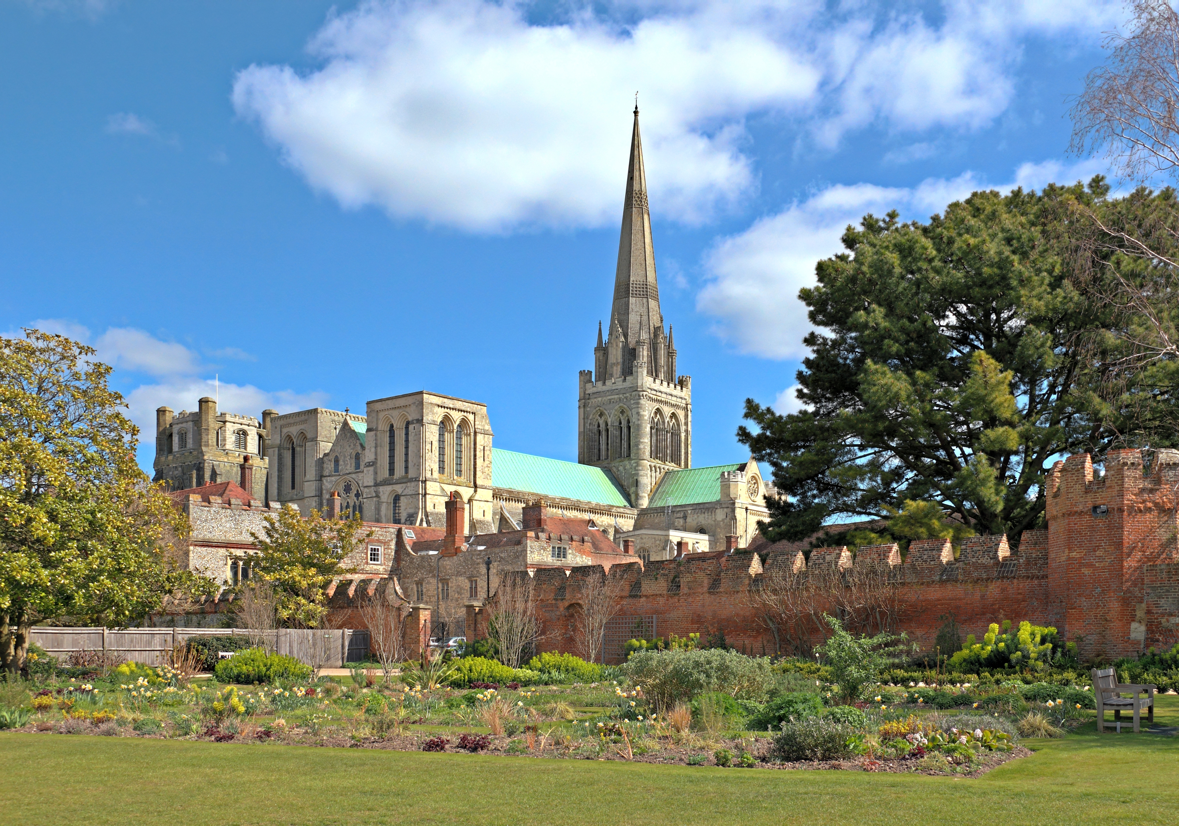 Chichester Cathedral, April 2012